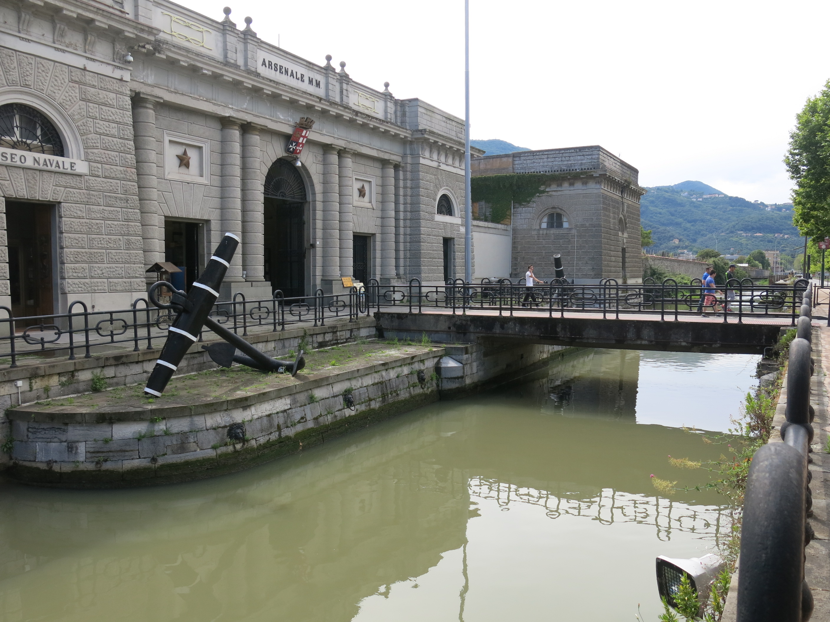 Arsenal of La Spezia (Liguria, Italy).